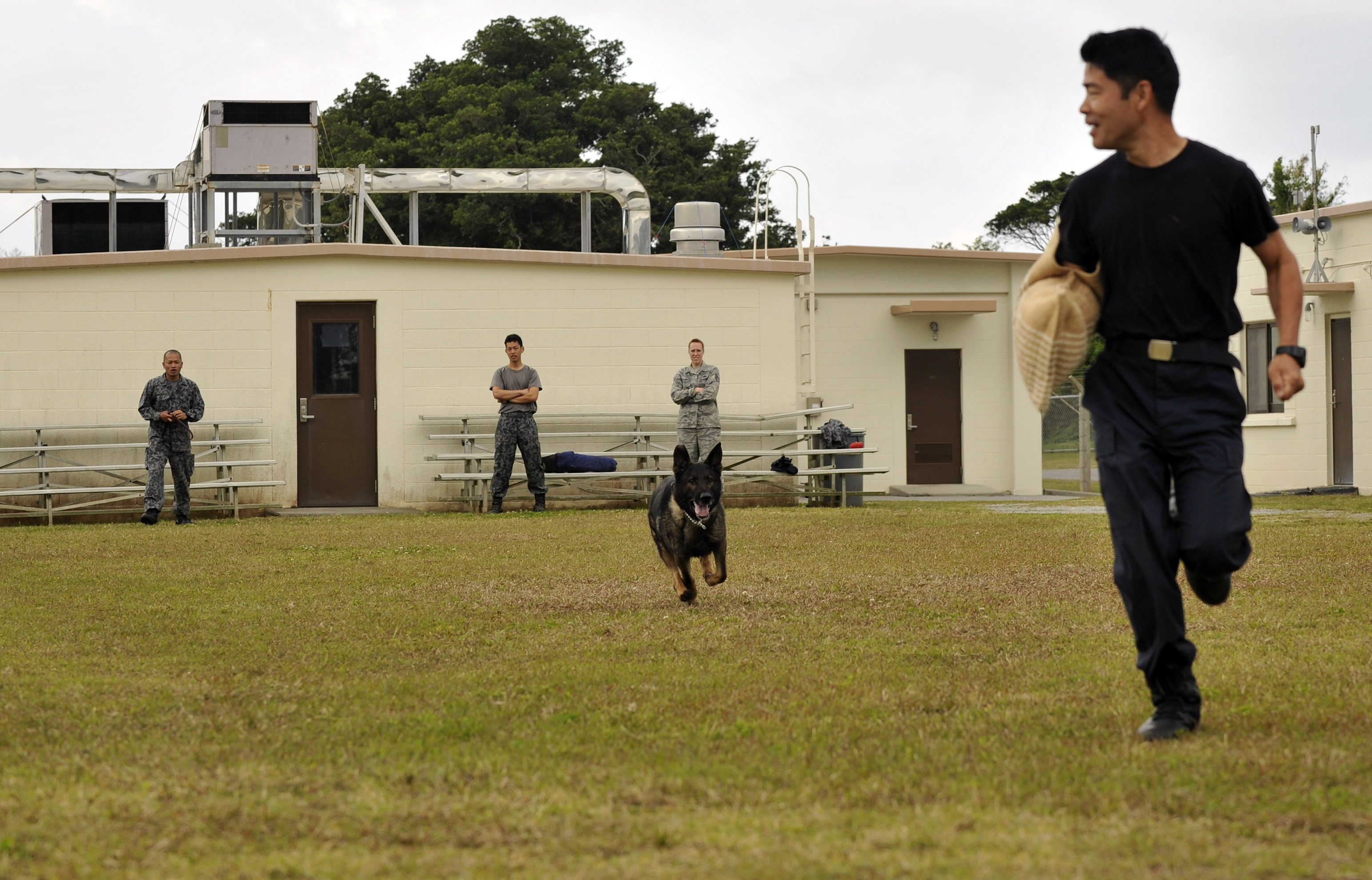 Marco, a Japan Air Self-Defense Force Military Working Dog, runs toward Civilian Guard Shitetsu Hirata, 18th Security Forces Squadron kennel assistant, during joint MWD training at the 18th SFS kennels on Kadena Air Base, Japan, Feb. 26, 2014. Joint MWD training gave JASDF handlers a diverse experience in training with their U.S. counterparts. (U.S. Air Force photo by Naoto Anazawa)